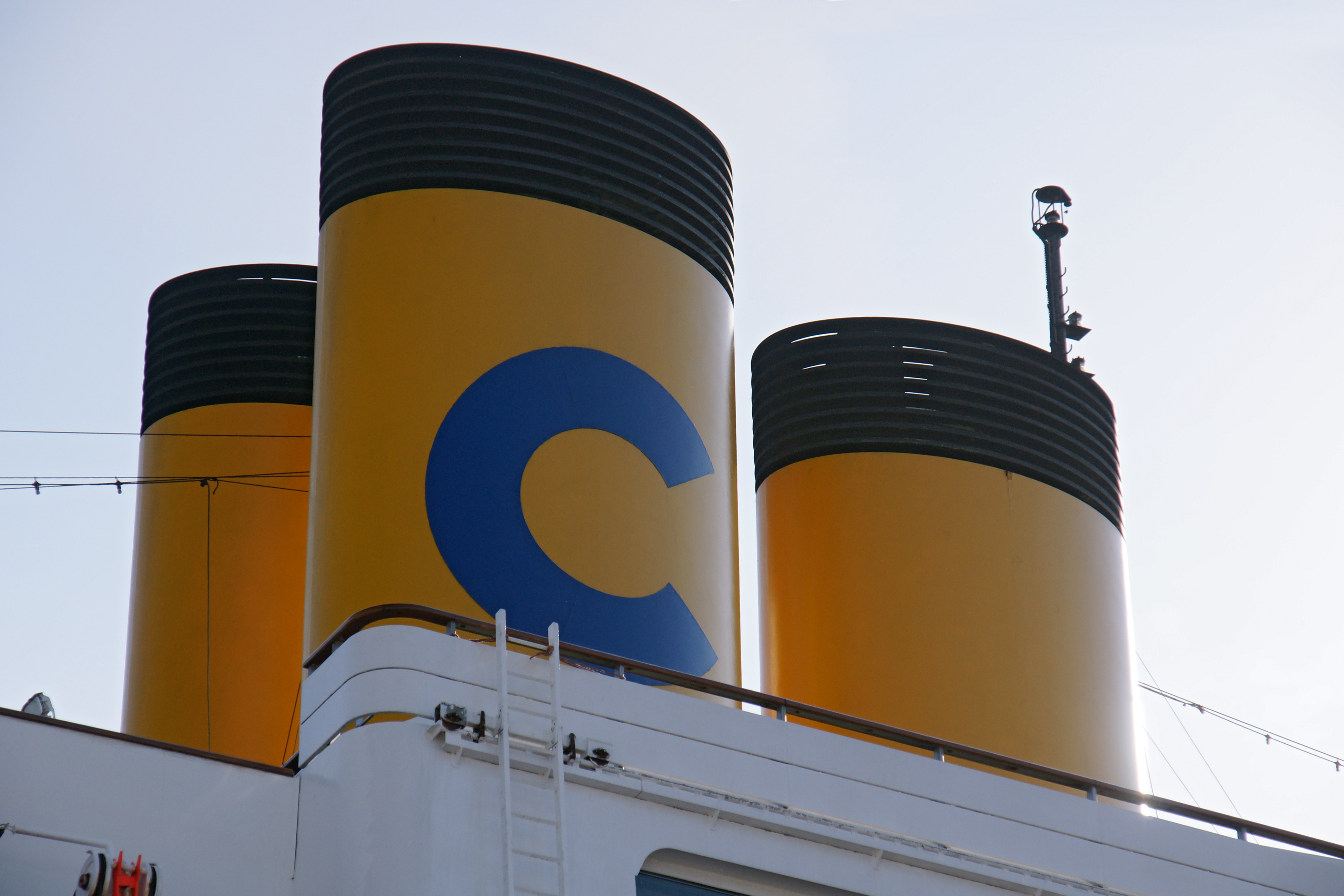 "Costa Classica" at "Kobe Port Terminal" of the Kobe harbor in Kobe, Hyogo prefecture, Japan.